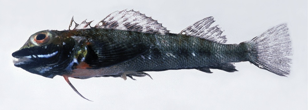 Helcogramma trigloides, male, 31.2 mm SL, Efate Island, Vanuatu, photograph by JT Williams.